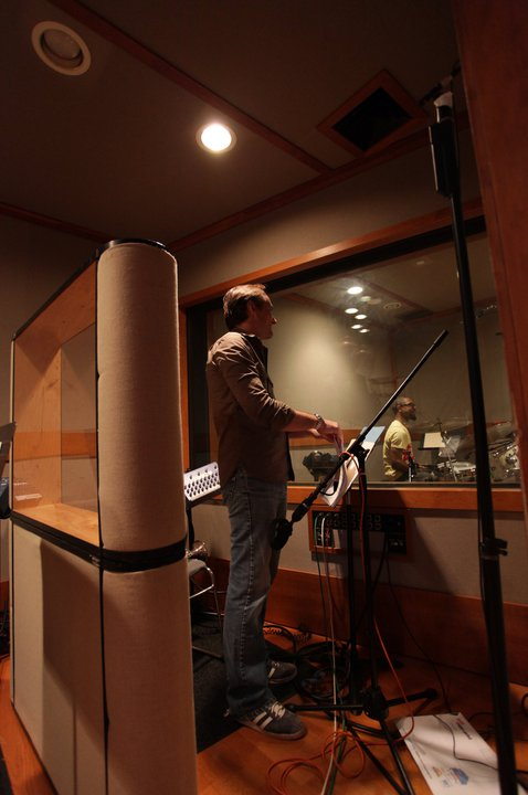 Stephane RONGET and Jerome JENNINGS (drums) During a session at Bennet studio, third album of the RONGETZ Foundation